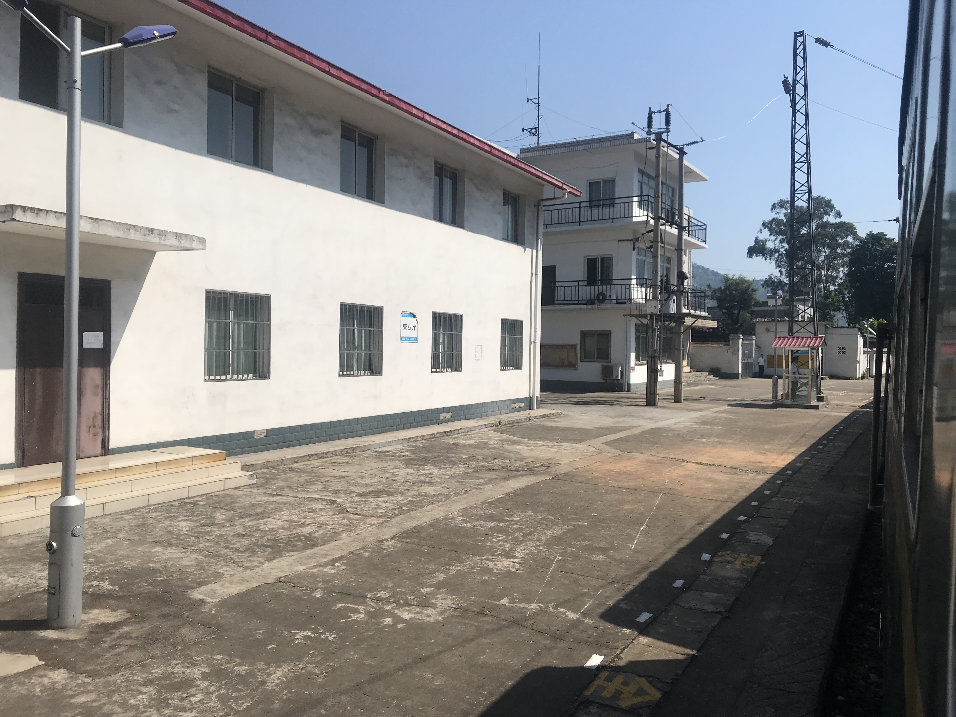 201908 Station Building of Wanqiu